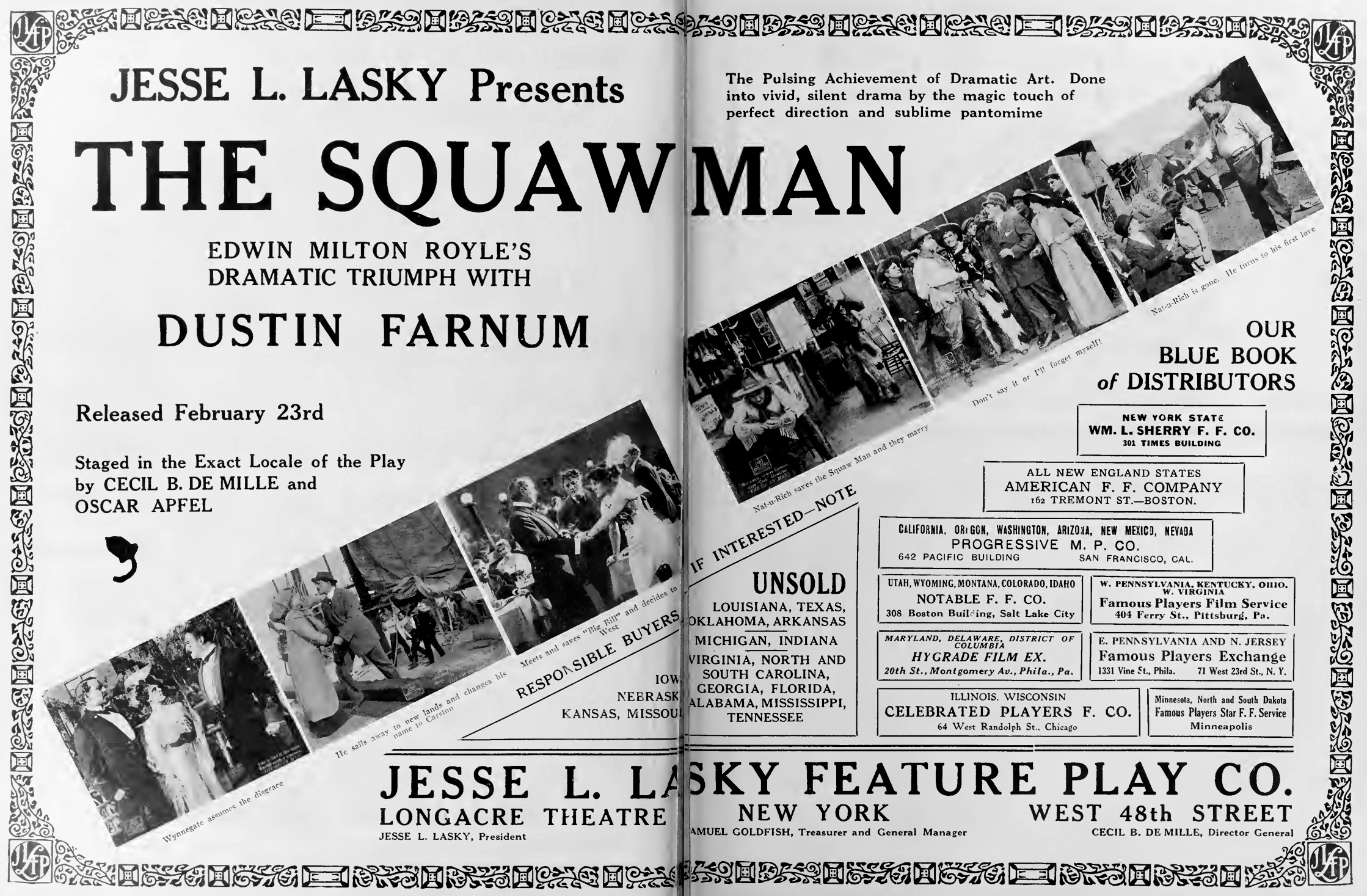 The Squaw Man (known as The White Man in the UK) is a 1914 silent western drama motion picture starring Dustin Farnum. This is from an advertisement in a trade magazine. (Advertisement was on two pages, magazine seam resulted in some missing data in the center.)